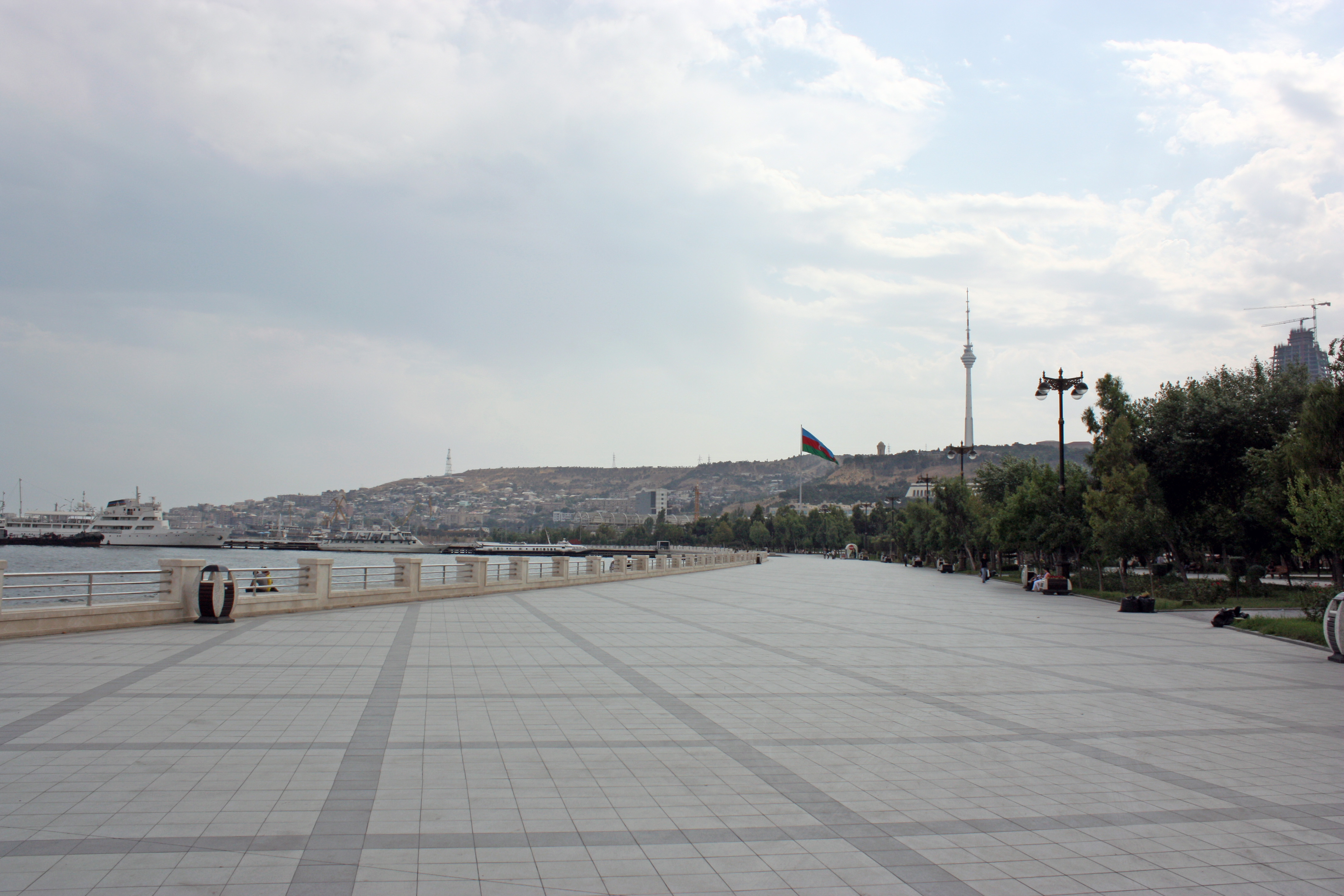 The Boulevard - westward view